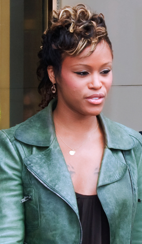 Eve at the 2009 Toronto International Film Festival.